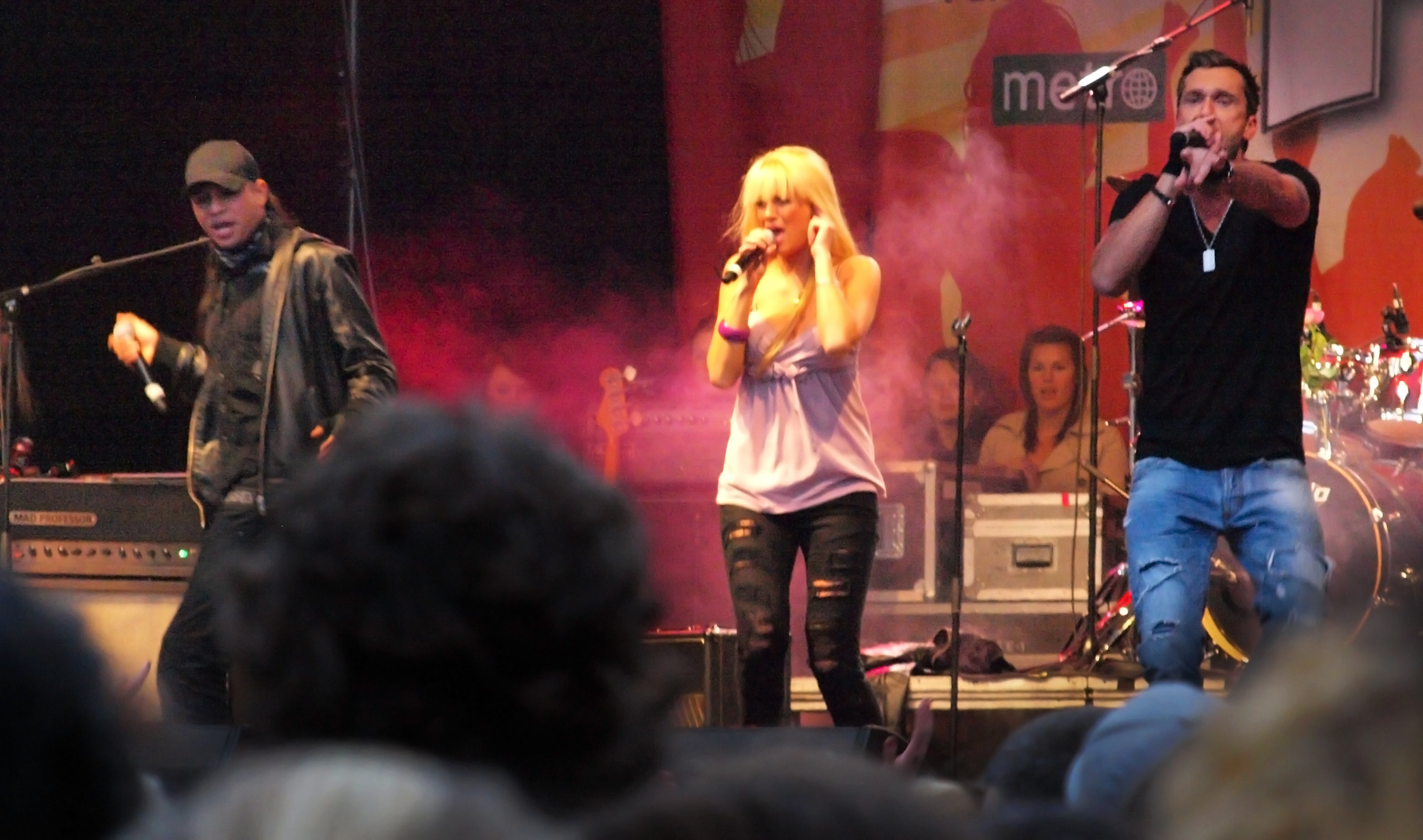 Swedish Eurodance band Basic Element performing in Falun, Sweden.